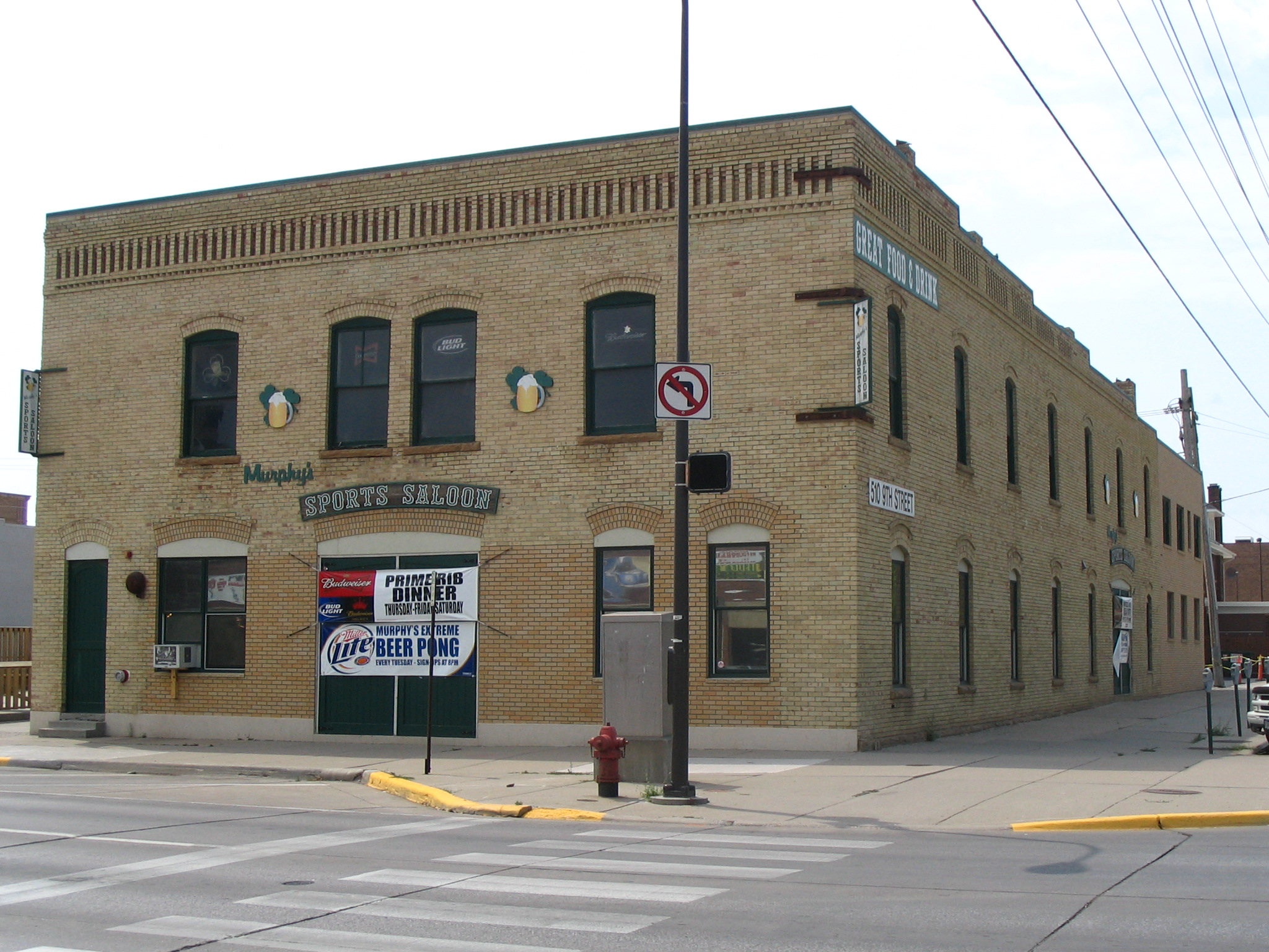 Rapid City Garage, Rapid City, South Dakota. This building is listed on the National Register of Historic Places.